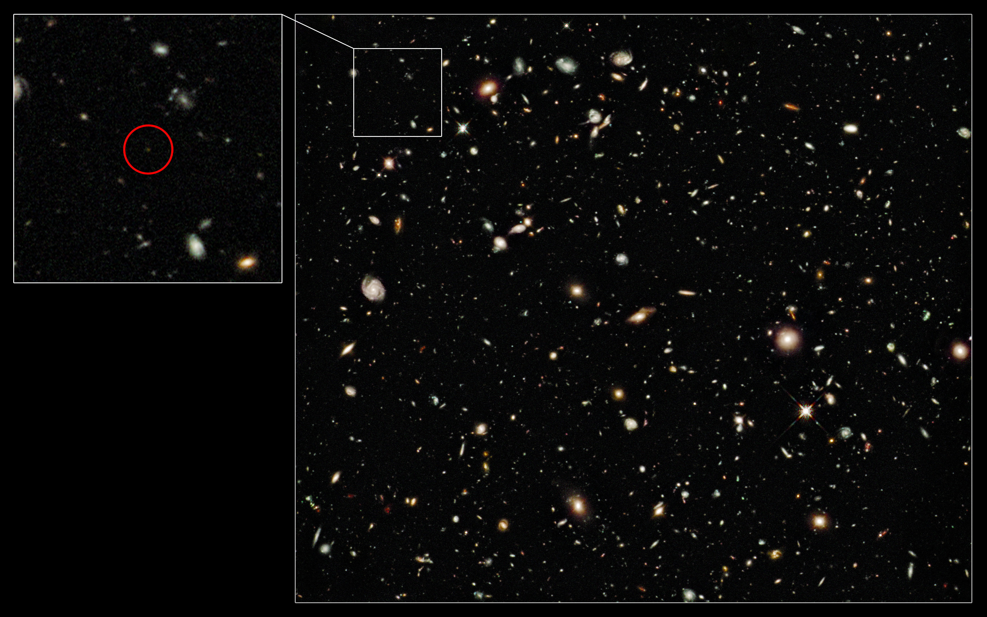 The location of UDFy-38135539 highlighted in image taken by the Hubble telescope